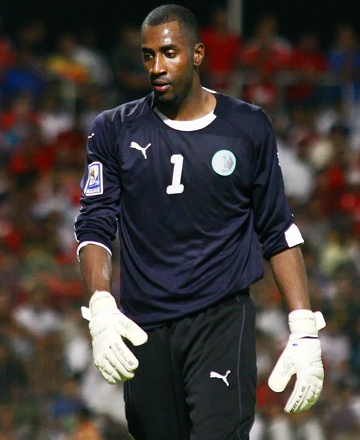 Waleed Abdullah of Saudi Arabia during the 2010 FIFA World Cup Asian Qualifiers match between Saudi Arabia and Bahrain on September 5, 2009 in Riffa, Bahrain